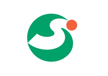 Flag of Sakai Fukui